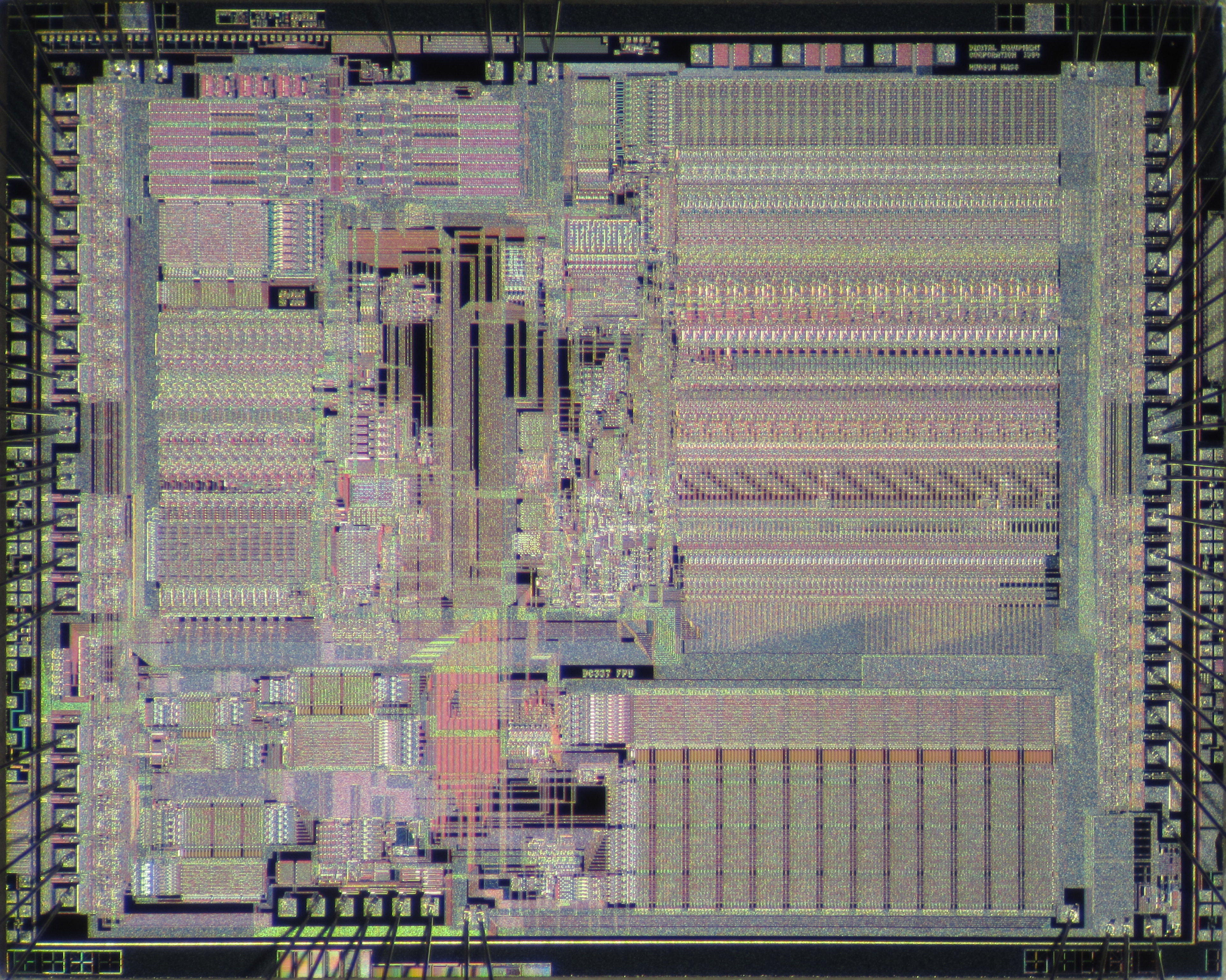 Die shot of DEC MicroVAX 78132-GA floating-point coprocessor from VAXstation2000 with chip number DC337C and part number 21-22797-01 on heatsink.